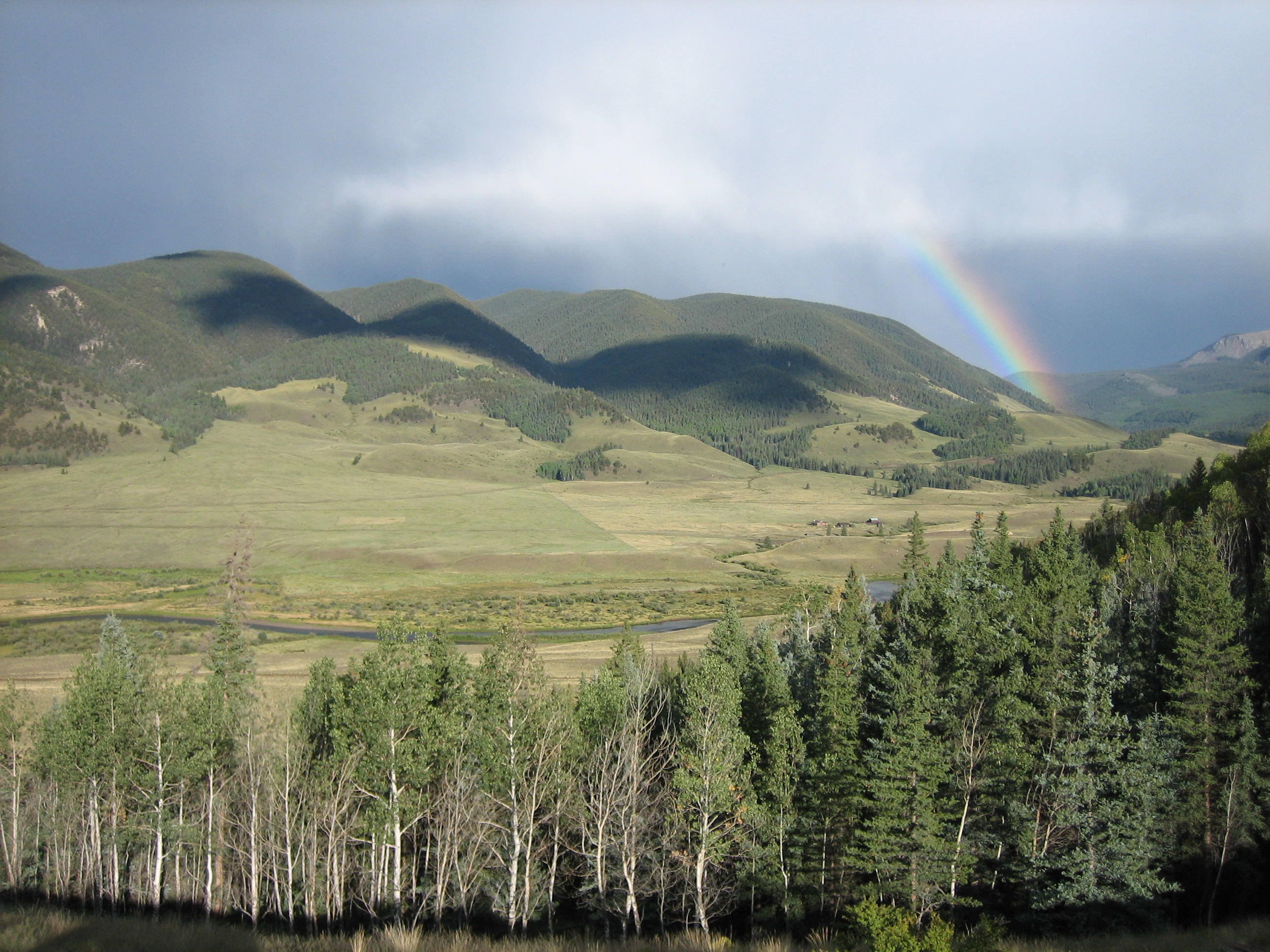 Transfer from File:Rio Grande Creede.jpg